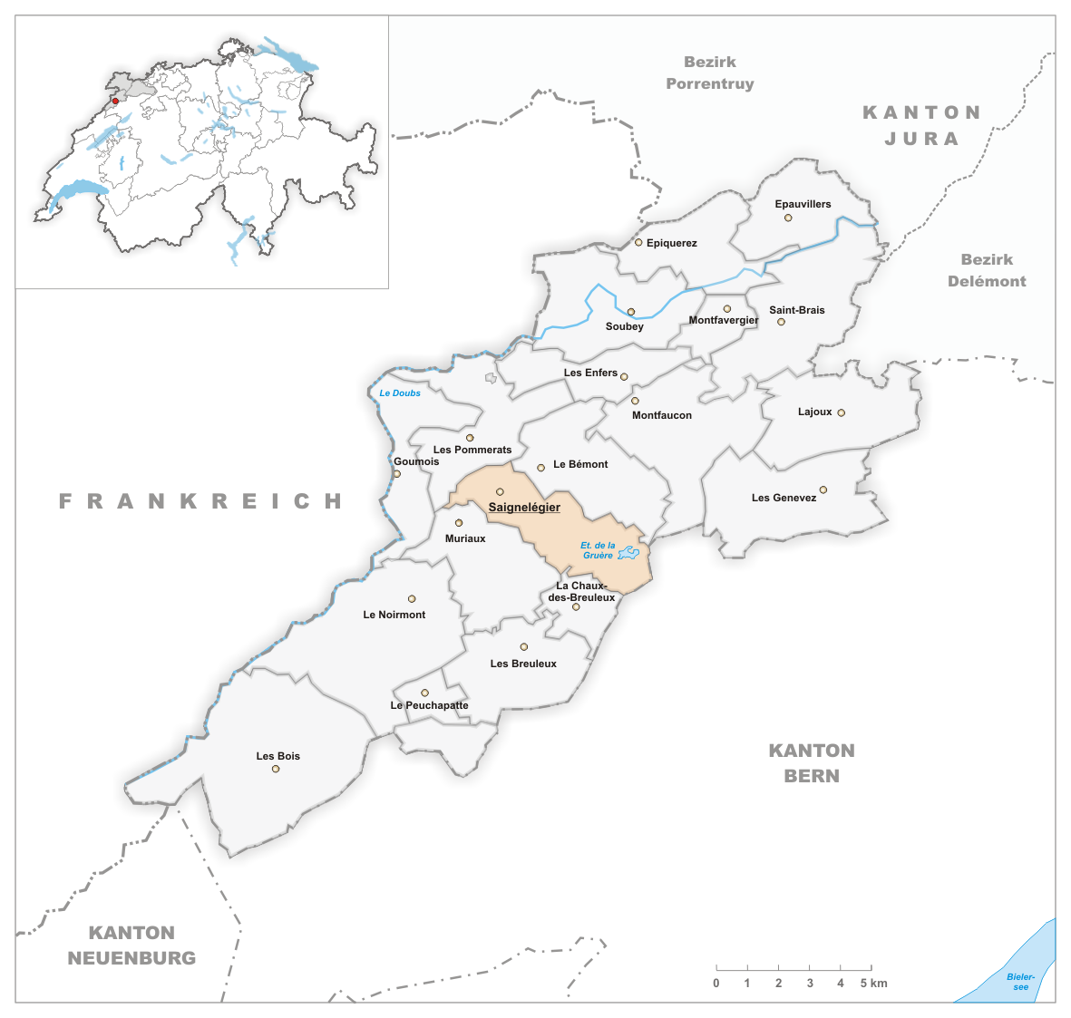 Municipality Saignelégier